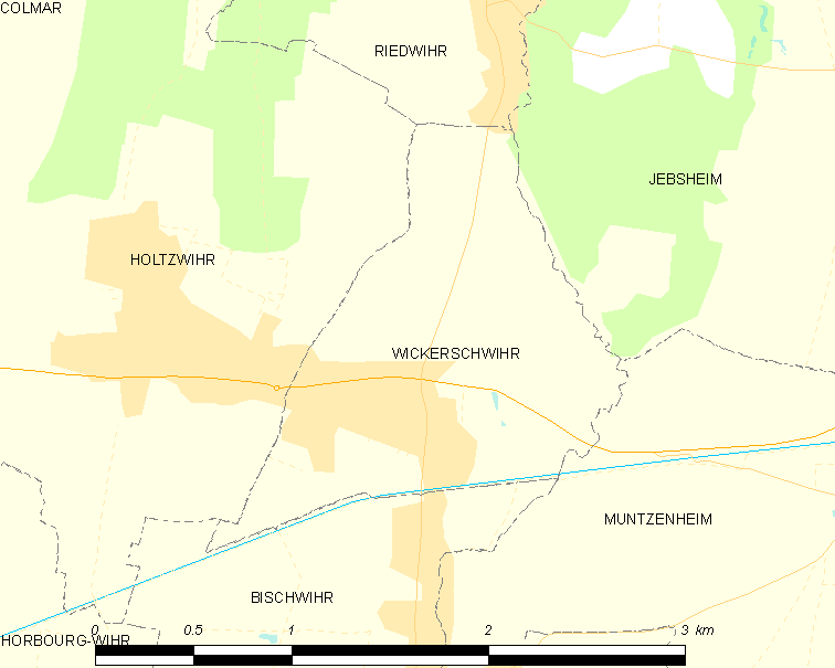 Map of French municipality